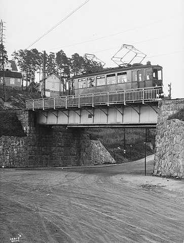 Bærumsbanen Class A tram near Bryn on the Østensjø Line in Oslo, Norway